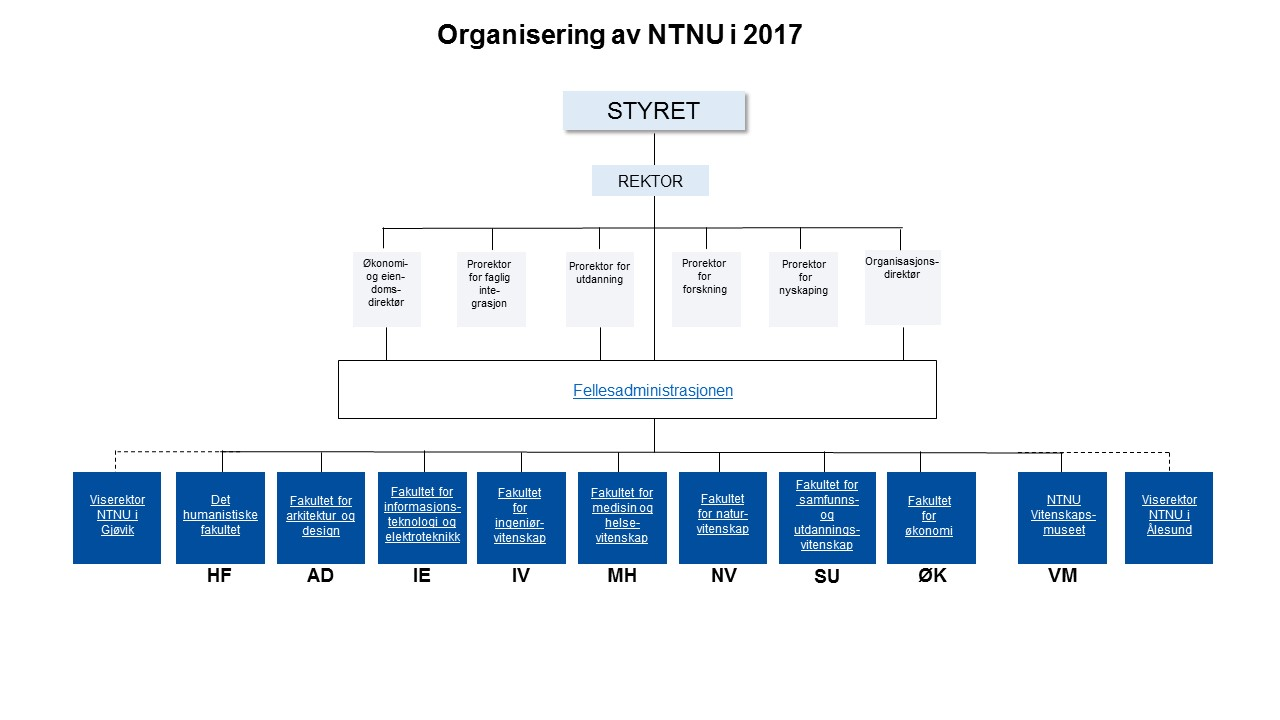 Organizational map for the Norwegian University of Science and Technology 2017